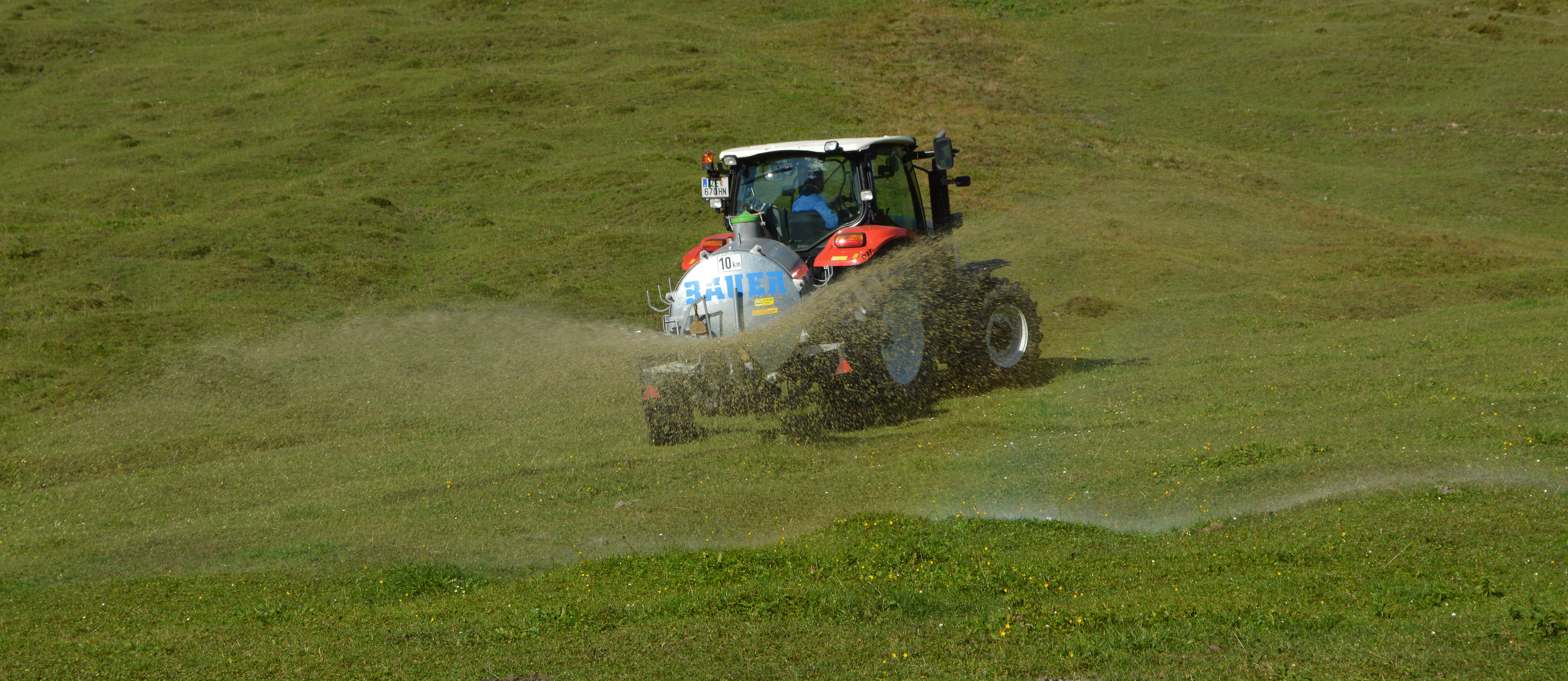 Fertilization of a meadow in Leogang-Grießen, Salzburg (state), with liquid manure.